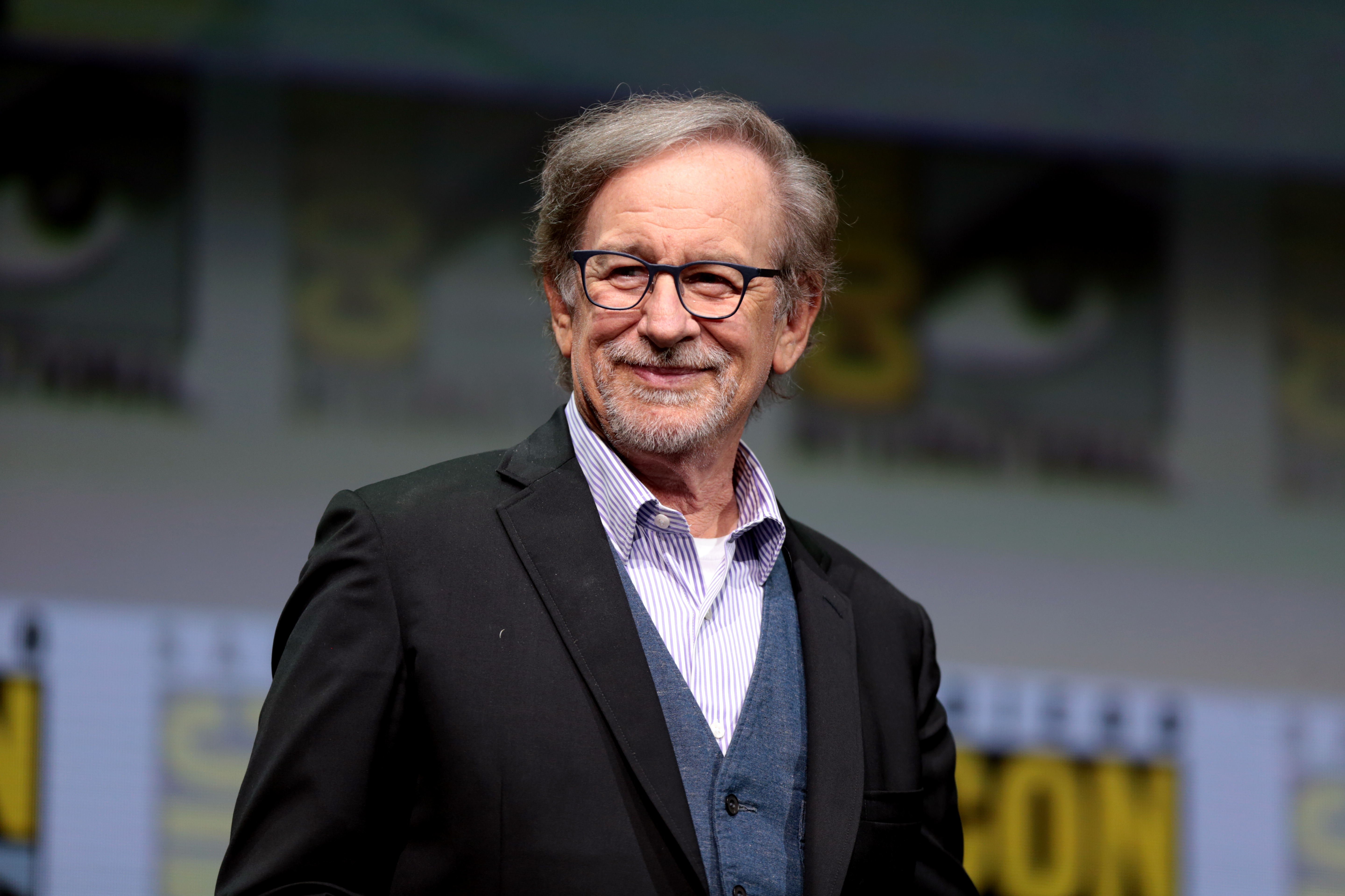 Steven Spielberg speaking at the 2017 San Diego Comic Con International, for "Ready Player One", at the San Diego Convention Center in San Diego, California.